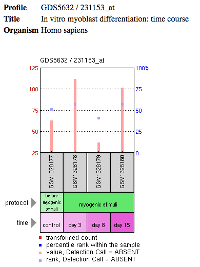 C16orf86 DNA microarray Myoblast differentiaon